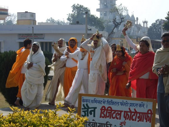 Jain Worship in Jambudweep Compound at Hastinapur.